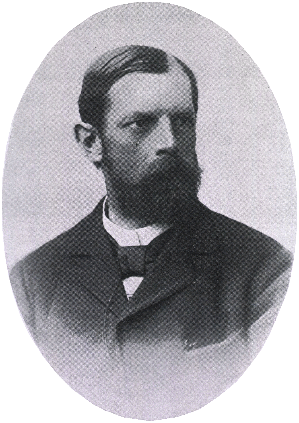 Hans Buchner (1860–1917), German physician and hygienist